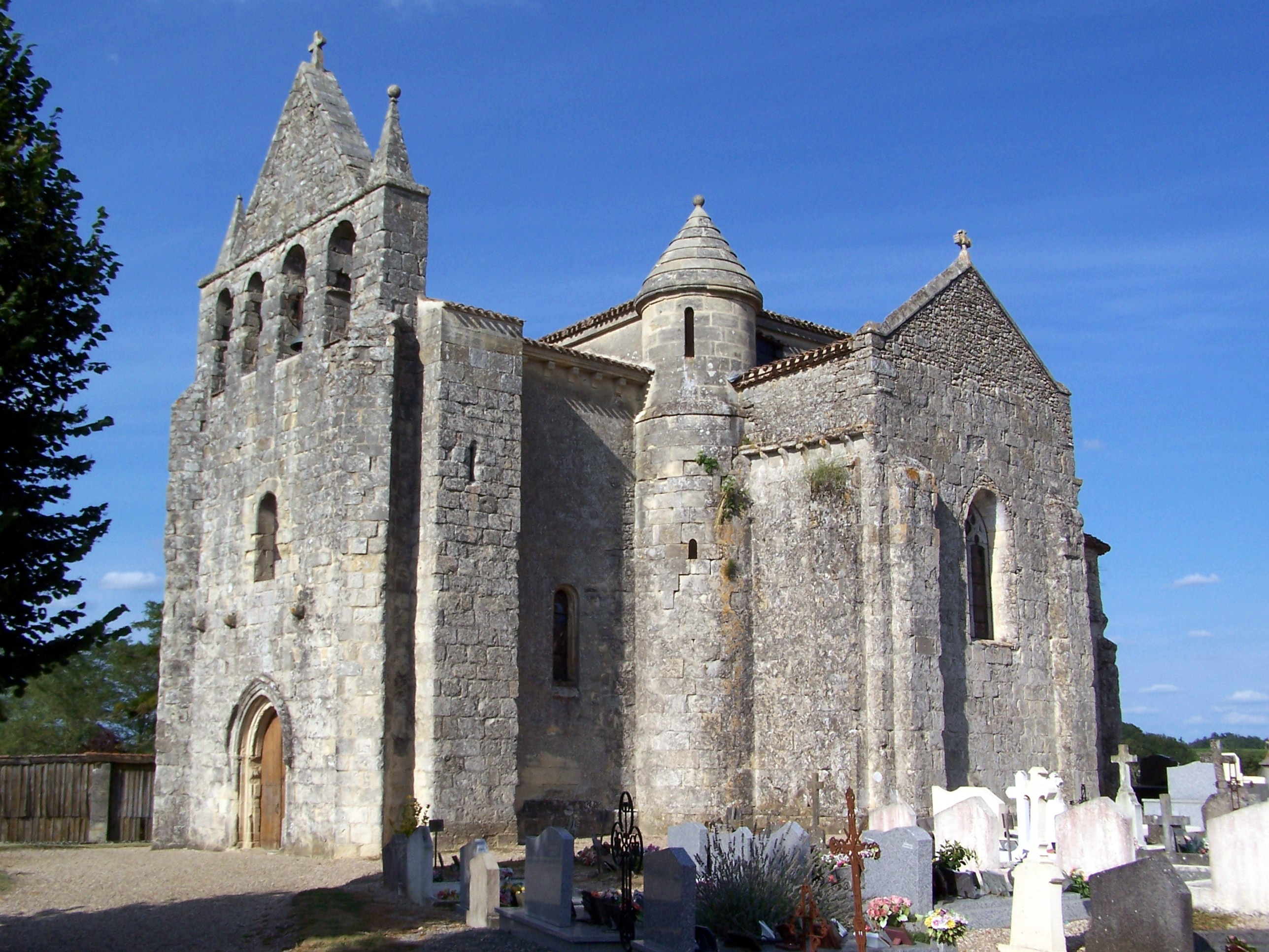 Church Saint-Saturnin of Mauriac (Gironde, France)